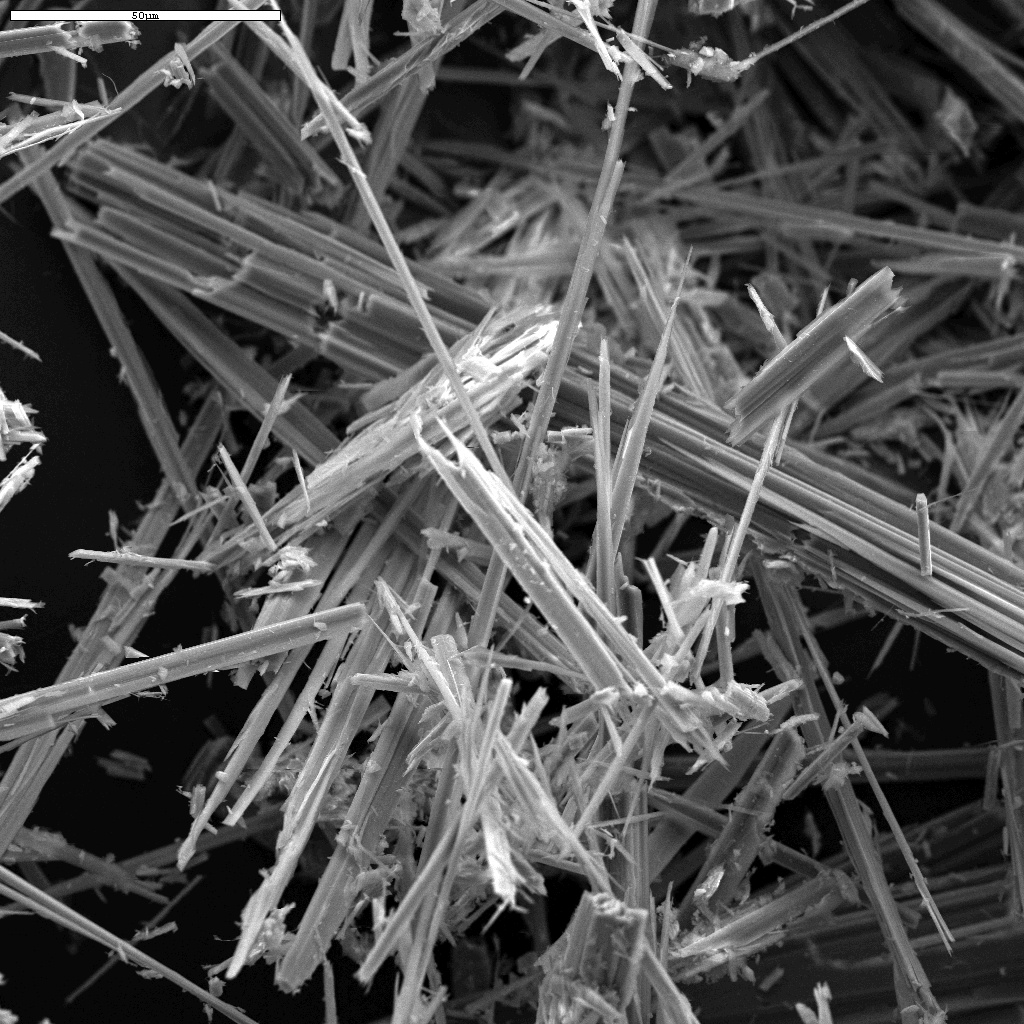 Anthophyllite asbestos, Scanning electron microscope picture